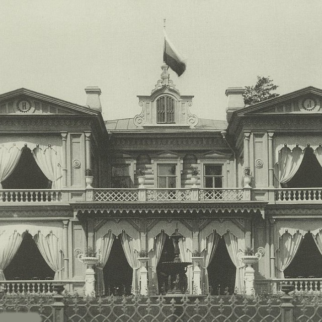 Dacha Lyamina.